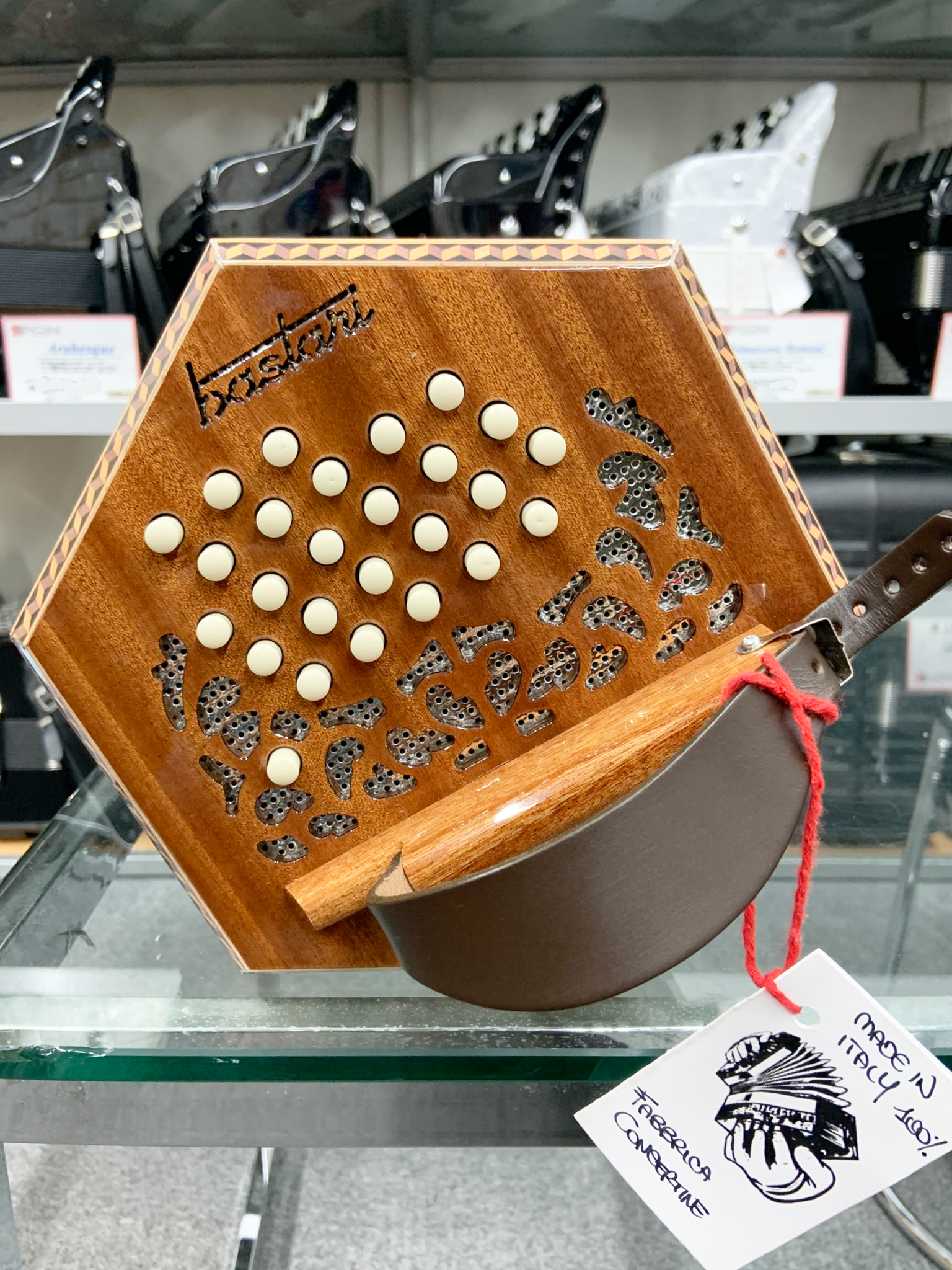 A Hayden type duet concertina with 46 button keys. Bastari brand(sold as Stagi brand in foreign countries), made in Italy. Right hand. This photo was taken at TANIGUCHI GAKKI, or Taniguchi Musical Instruments Store, Ochanomzu, Tokyo.